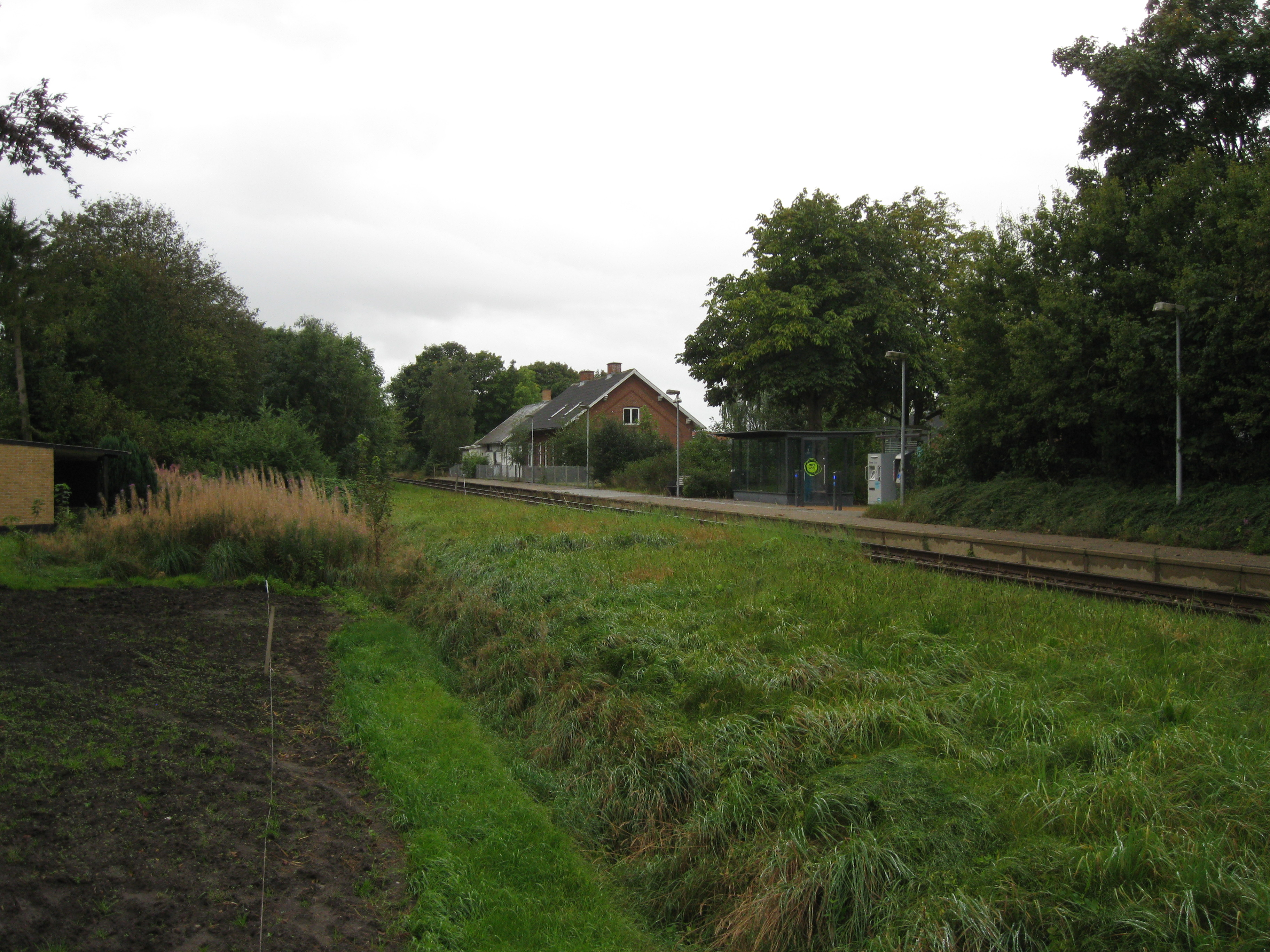 Train station Studsgård, Denmark